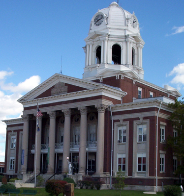 Taken by Acdixon on September 24, 2006